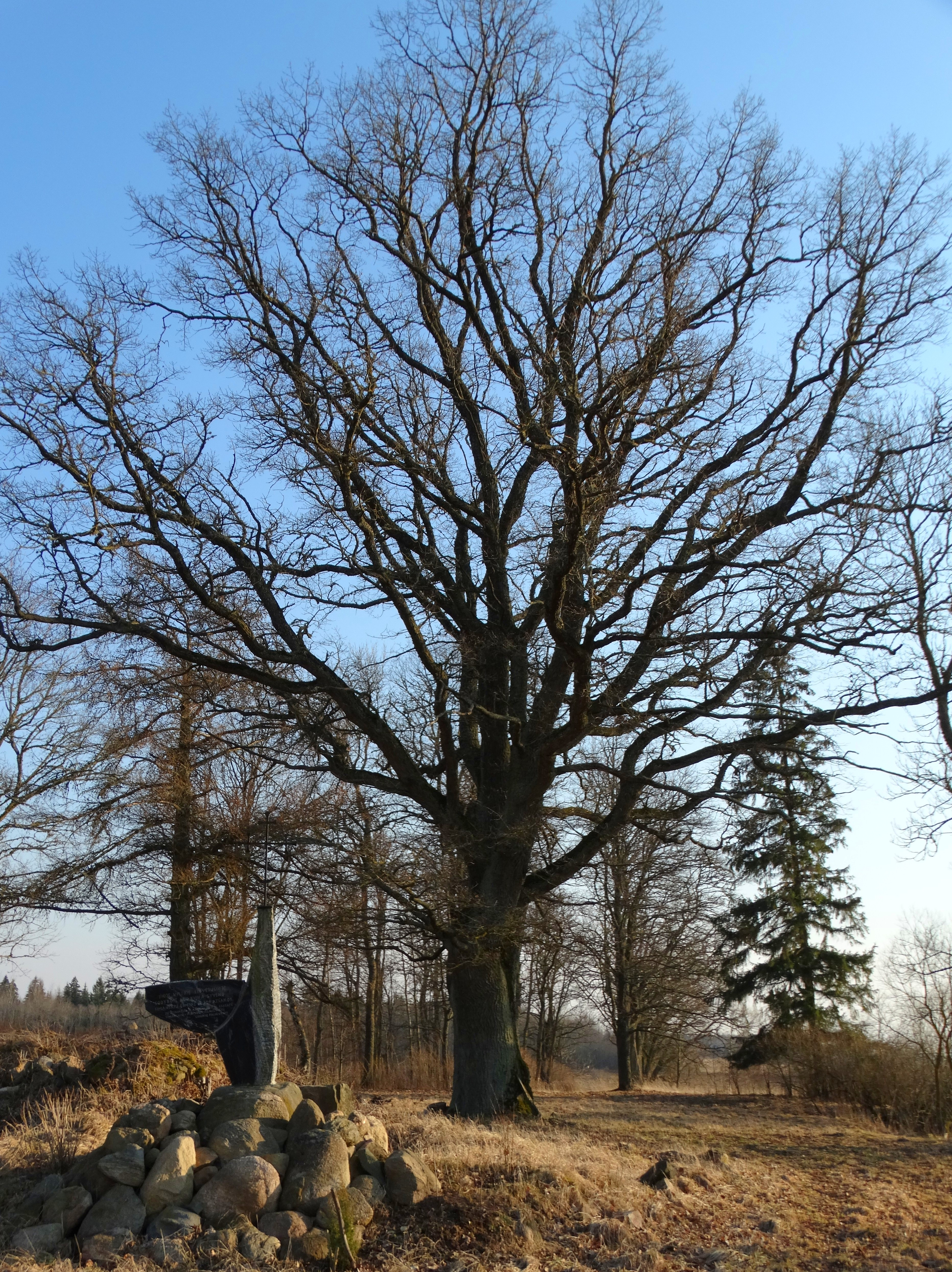 Riškaičiai Oak, Šiauliai district, Lithuania